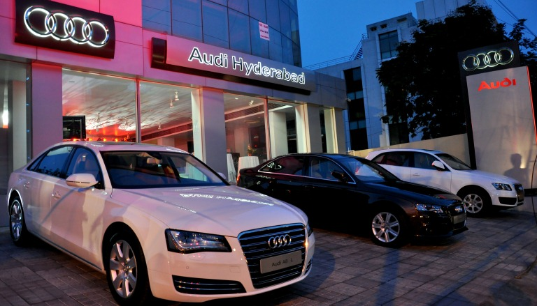 Audi showroom in Banjara Hills, Hyderabad.